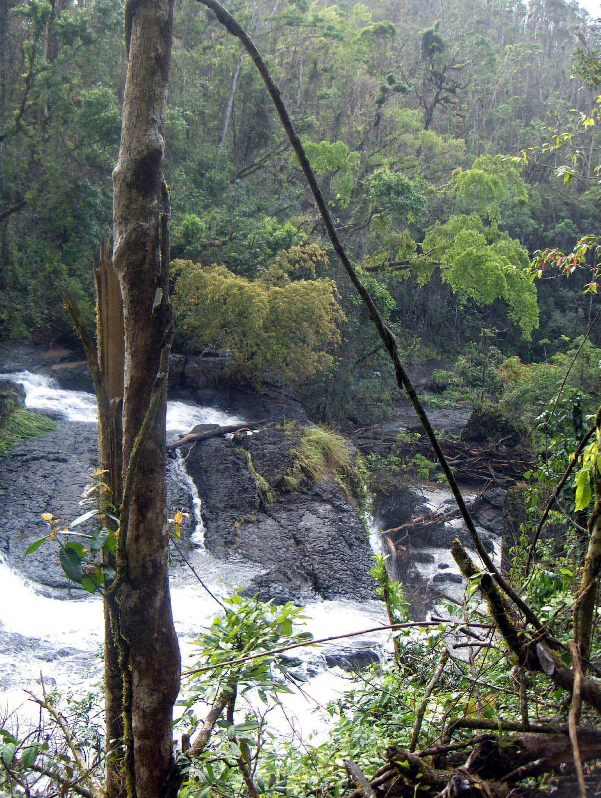 Rainforest - Atherton Tableland, Queensland, Australia